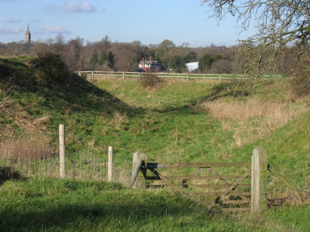 Photograph of earthworks